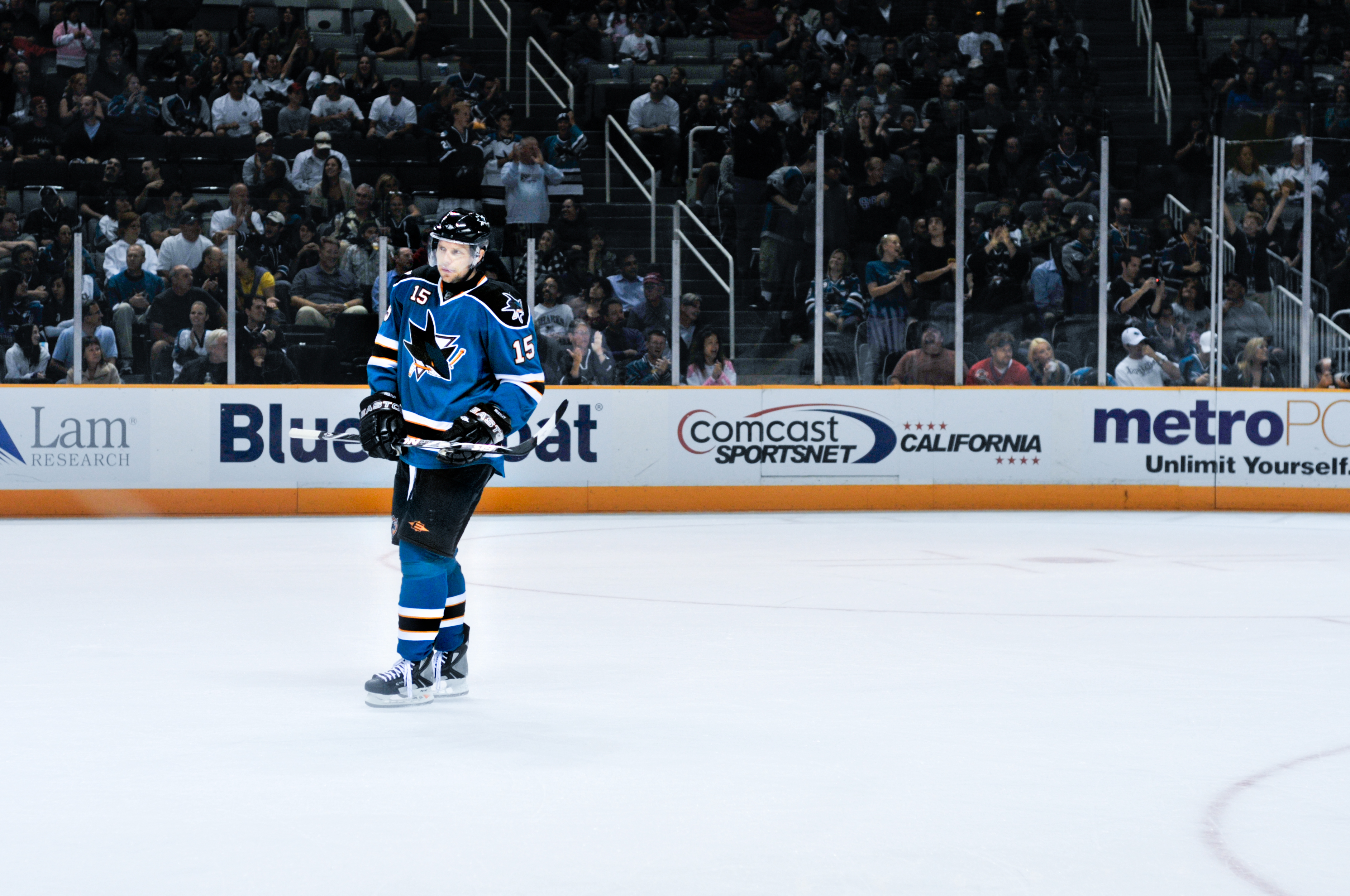 Dan Heatley of San Jose Sharks